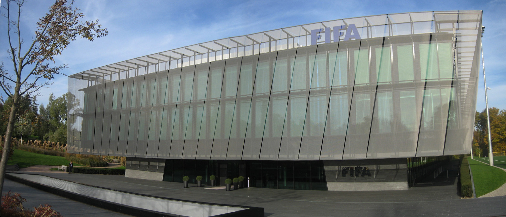 FIFA Headquarter in Zürich